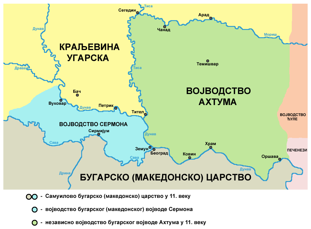 Duchies of Ahtum and Sermon in the 11th century - Serbian language version.